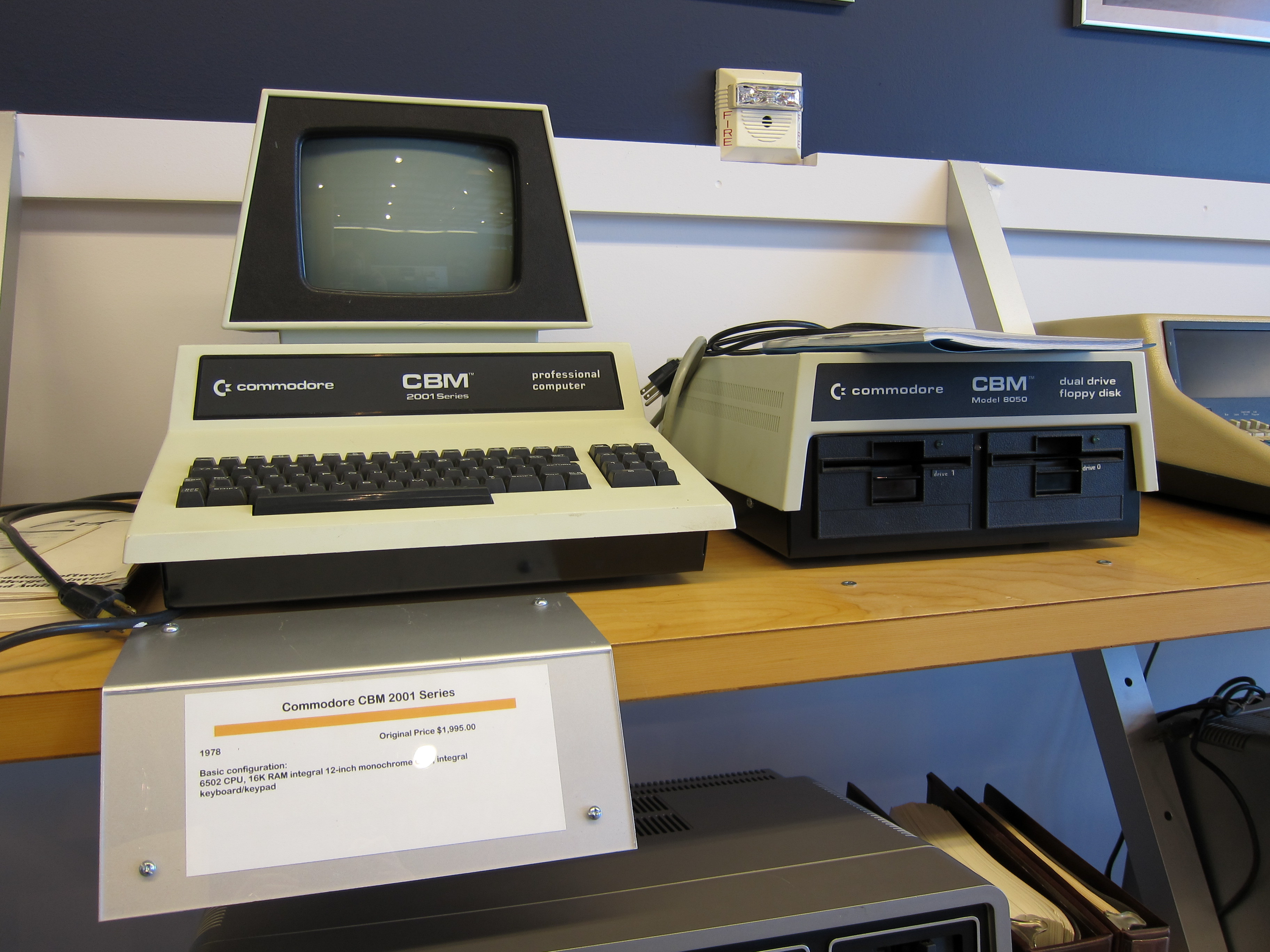 Commodore CBM 2001-B Series & 8050 floppy drive (MPI mechanisms)